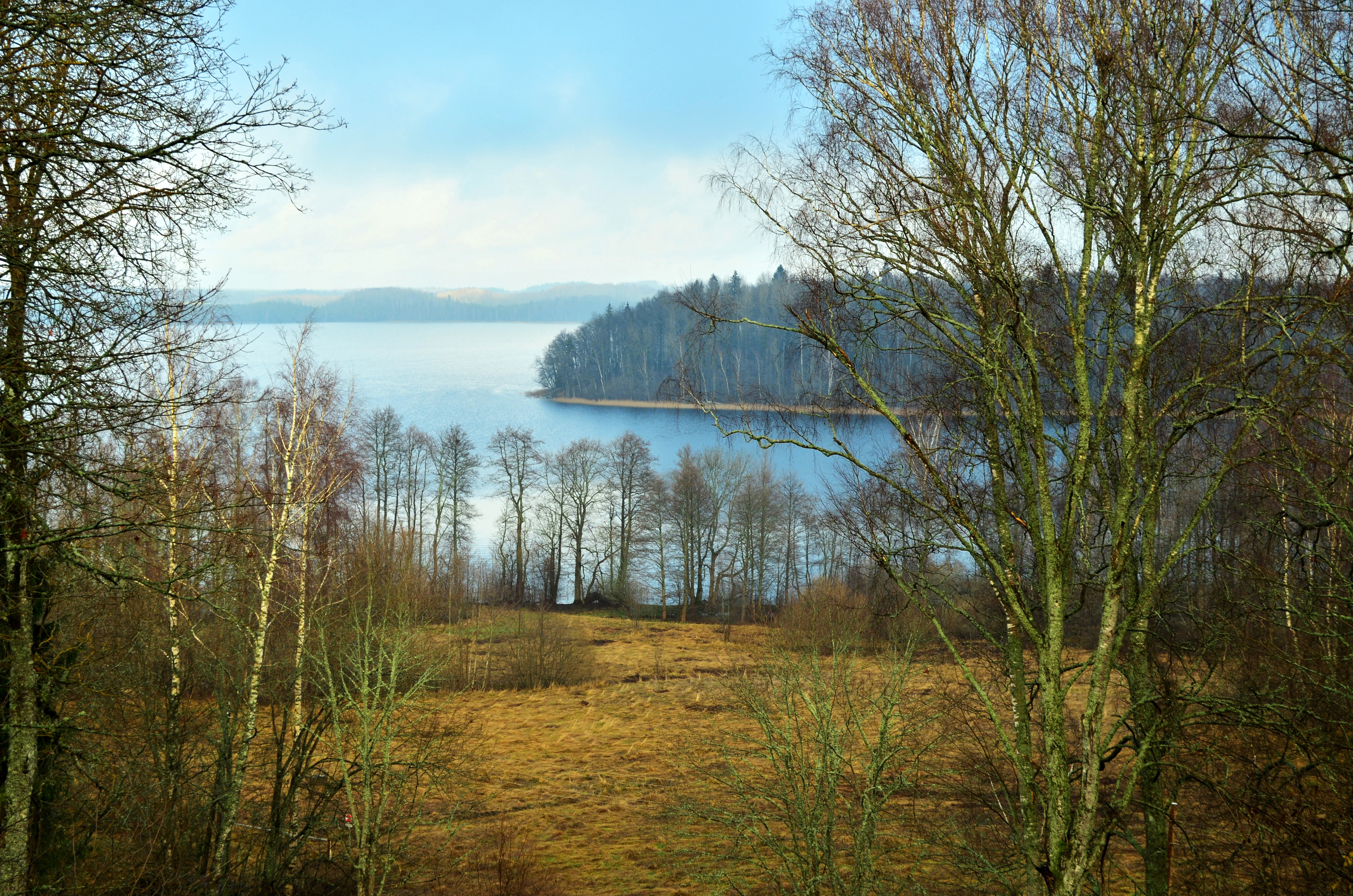 Big Augstroze LakeLatviešu: Augstrozes Lielezers